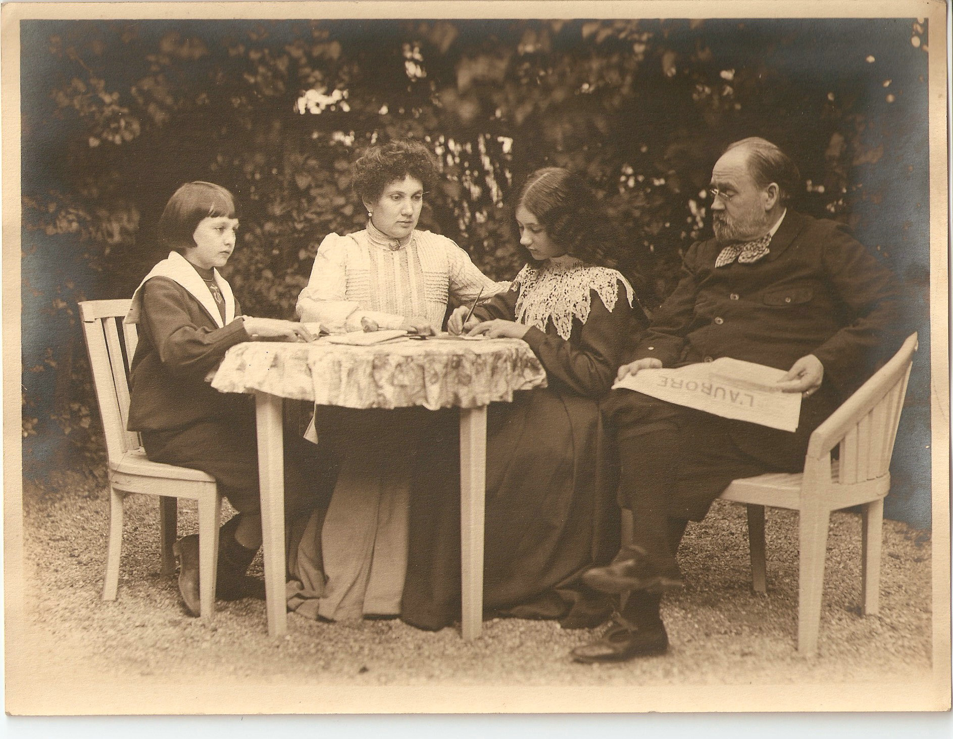 emile zola and family